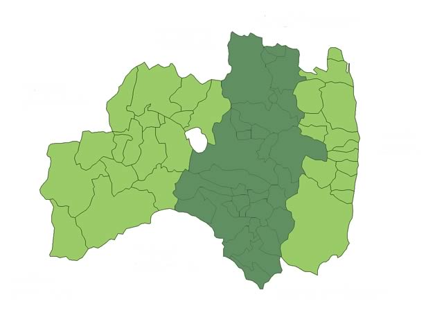 Map showing the Nakadōri region of Fukushima Prefecture, Japan